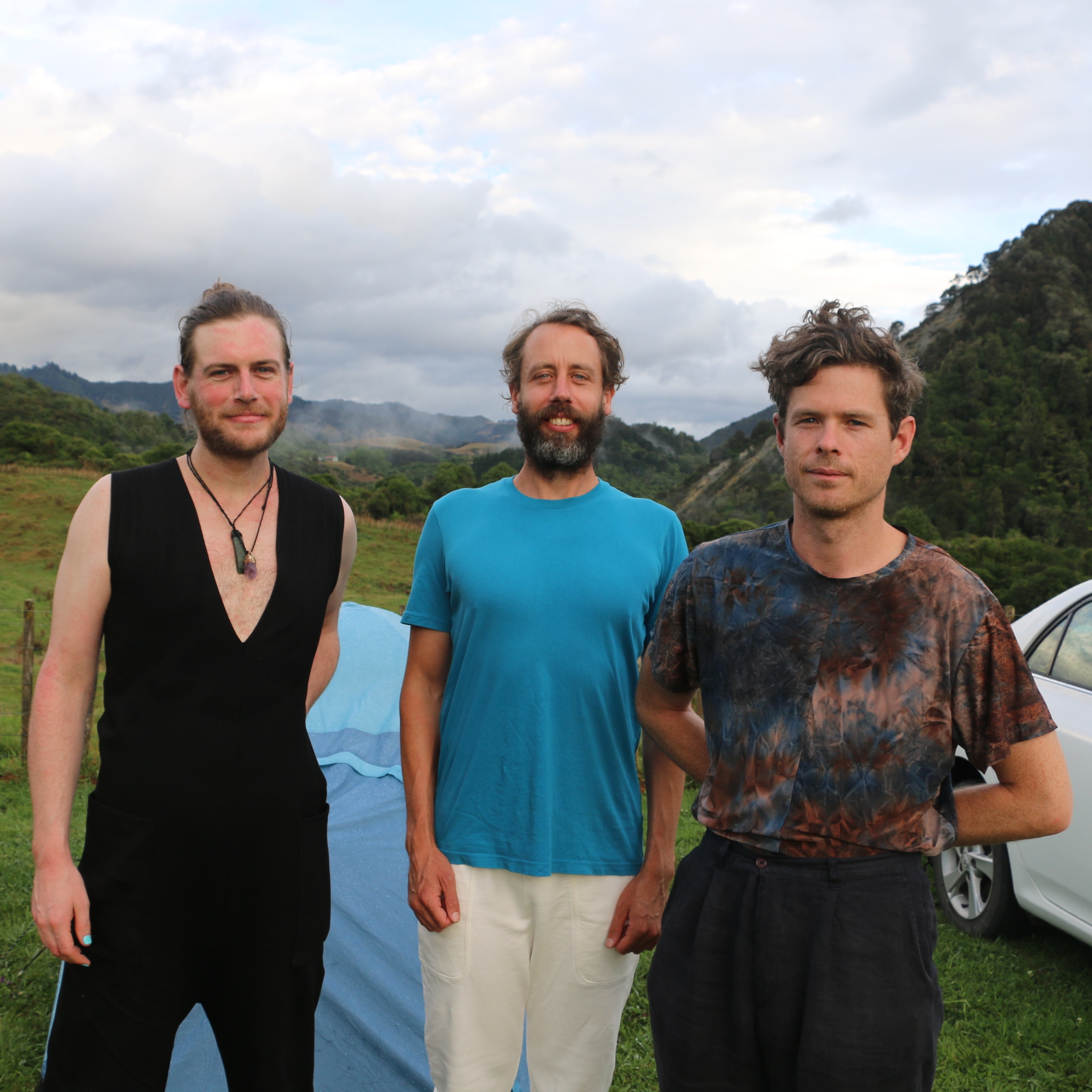 Photo of core Glass Vaults members, taken in 2017. From left are Richard Larsen, Bevan Smith and Rowan Pierce.